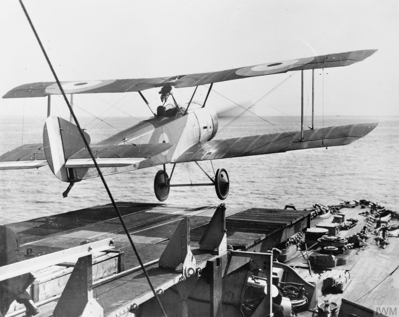 The Sopwith Pup of Flight Commander Frederick Joseph Rutland, DSC and Bar, takes off from a platform on the forward gun turret of HMS Yarmouth, June 1917.